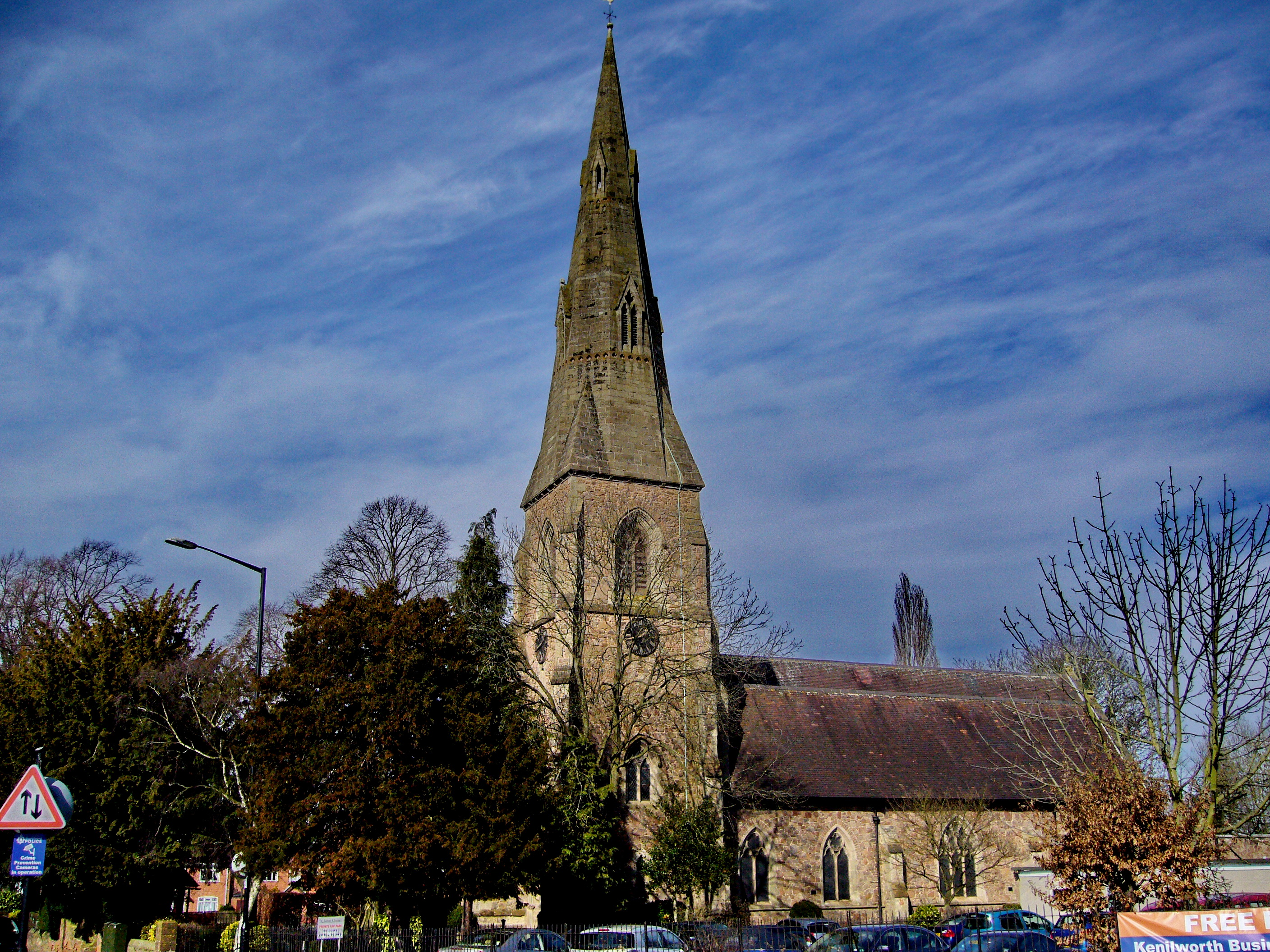 Parish church of St John the Evangelist, Warwick Road, Kenilworth, Warwickshire, seen from the south